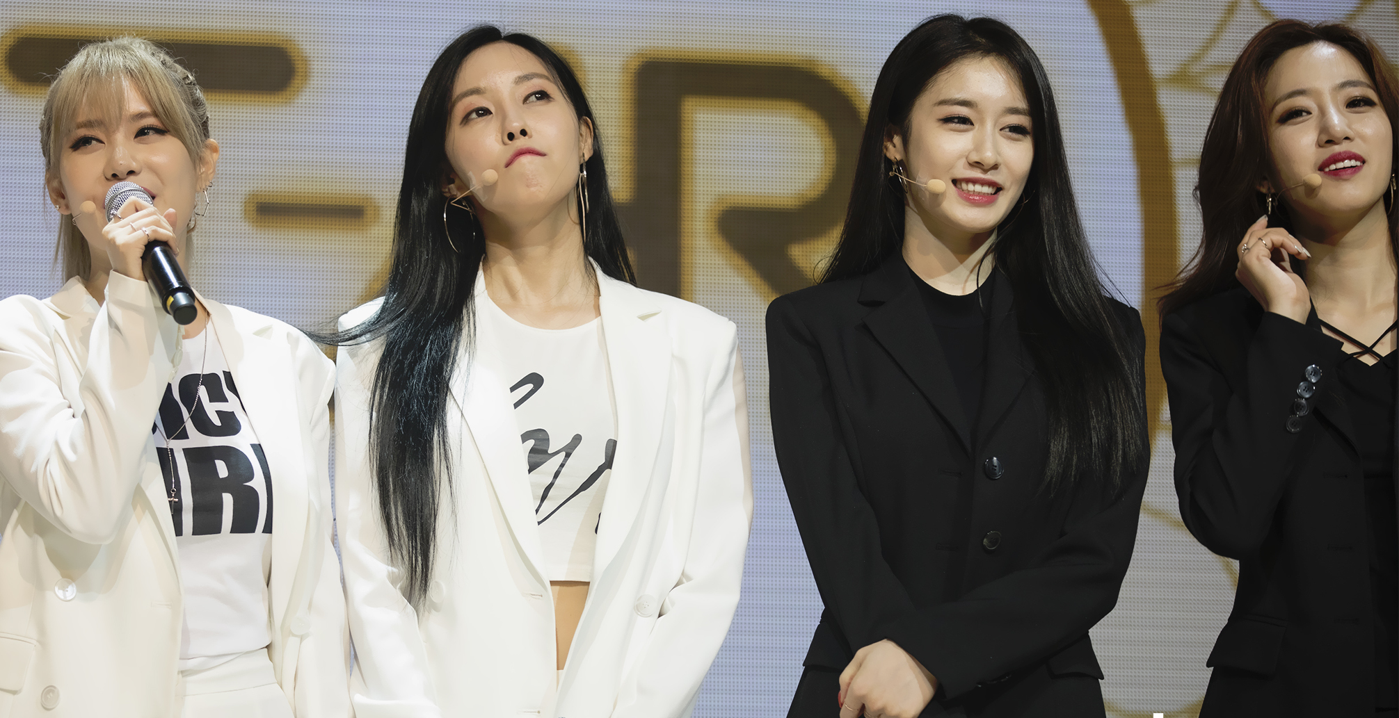 170614 'What's My Name' Showcase